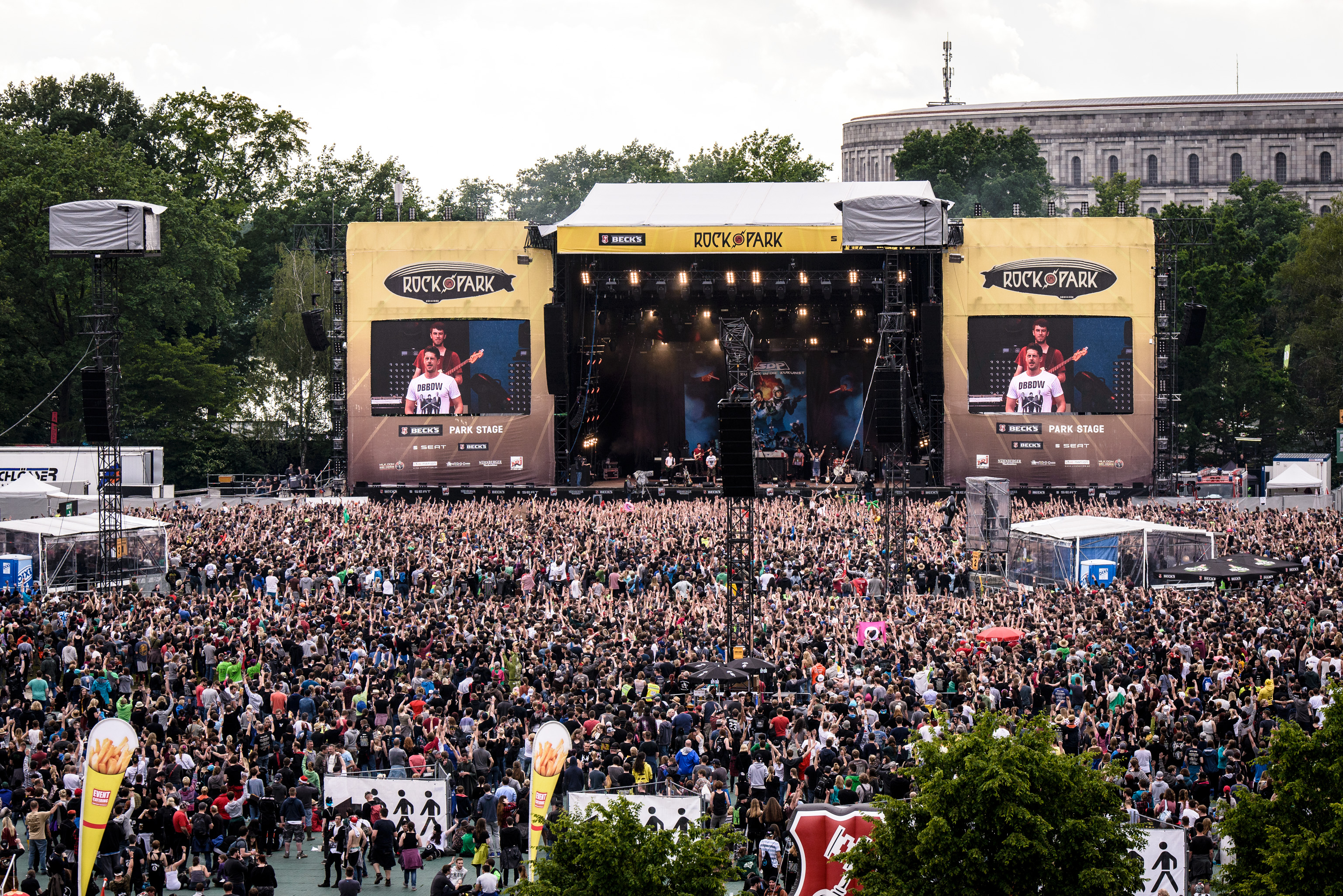 Parkstage @ Rock im Park 2016